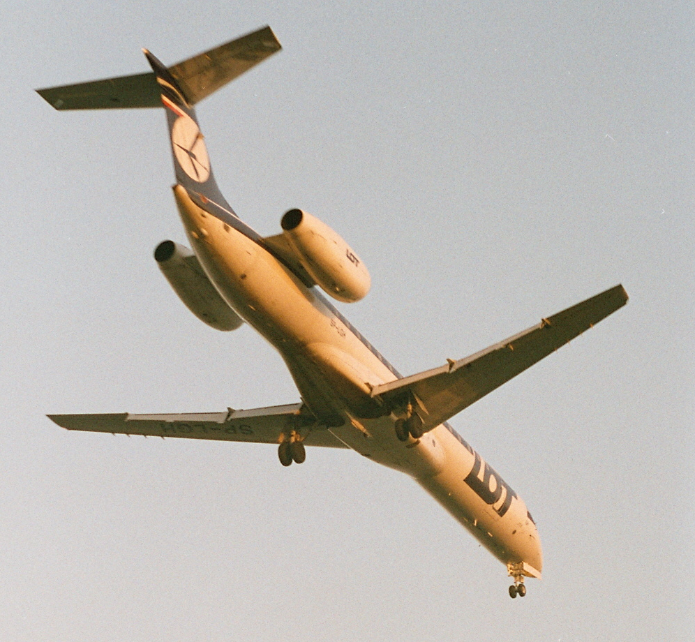 PLL LOT Embraer ERJ-145 while landing on EPWA Warsaw Okecie Fryderyk Chopin Intl. Airport.